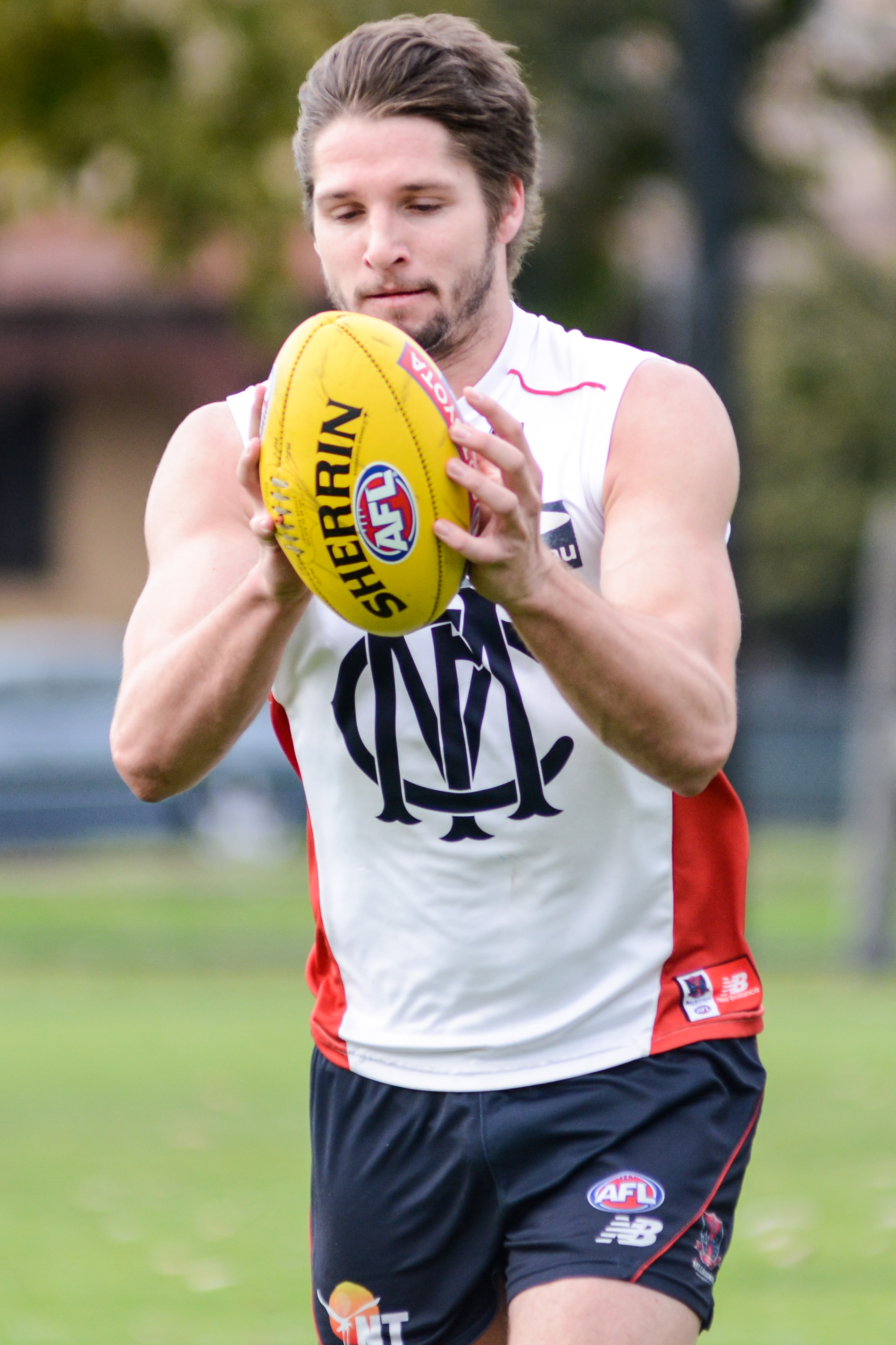 Jesse Hogan at training during July 2015